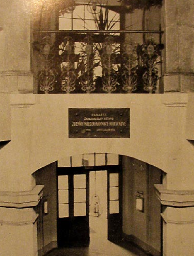 The memorial plaque honoring Zdeňka Wiedermannová-Motyčková was unveiled in the girl's real gymnasium (high school) building on 25 October 1925, removed around 1939 and its whereabouts are unknown.